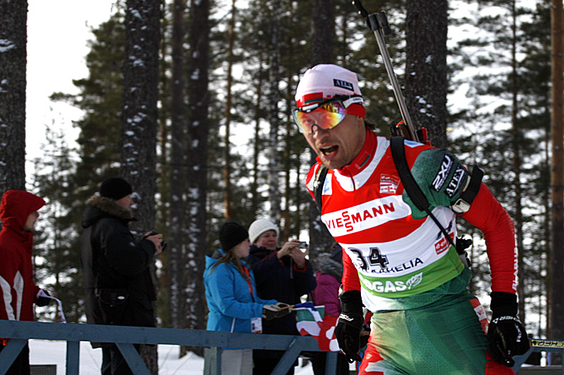 Alexandr Syman. Men 10 km sprint, 13 march 2010, Kontiolahti.